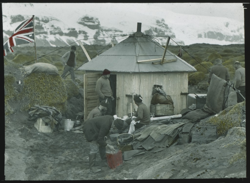 Hurley, Frank, 1885-1962. Part of the John George Hunter collection of photographs of Antarctica, 1911-1914. The tiny old Norwegian hut in which eight scientists of the Mawson Antarctic Expedition dwelt during a prolonged blizzard which marooned them for eight days in November 1929. Persistent URL .au/nla.pic-an23323349